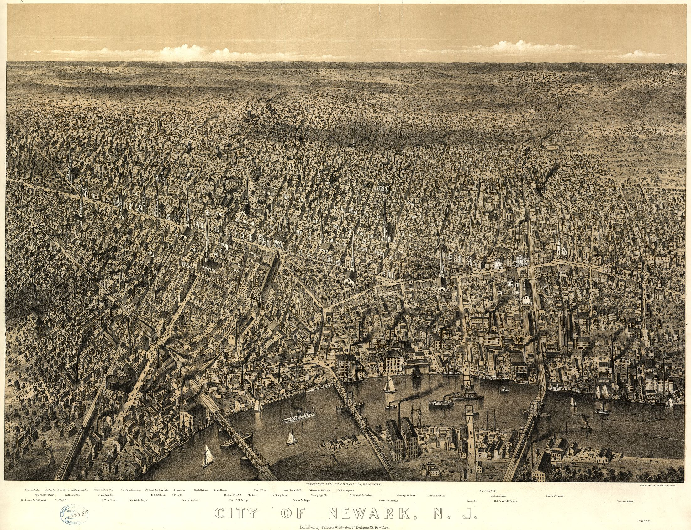 Looking west over Newark, New Jersey, United States. Leftmost bridge carries Pennsylvania Railroad to Penn Station, near which the Morris Canal heads northwest past the triangular Military Park with its large church. Erie Lackawanna bridge on lower right connects to Broad Street and line westward.